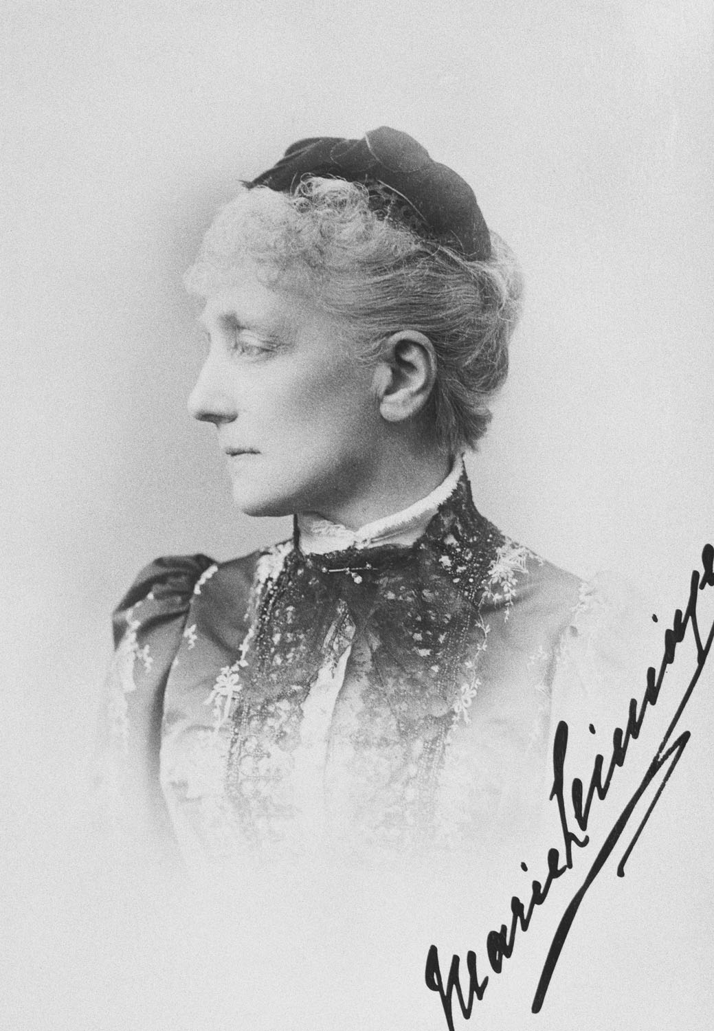 Marie, Princess of Leiningen